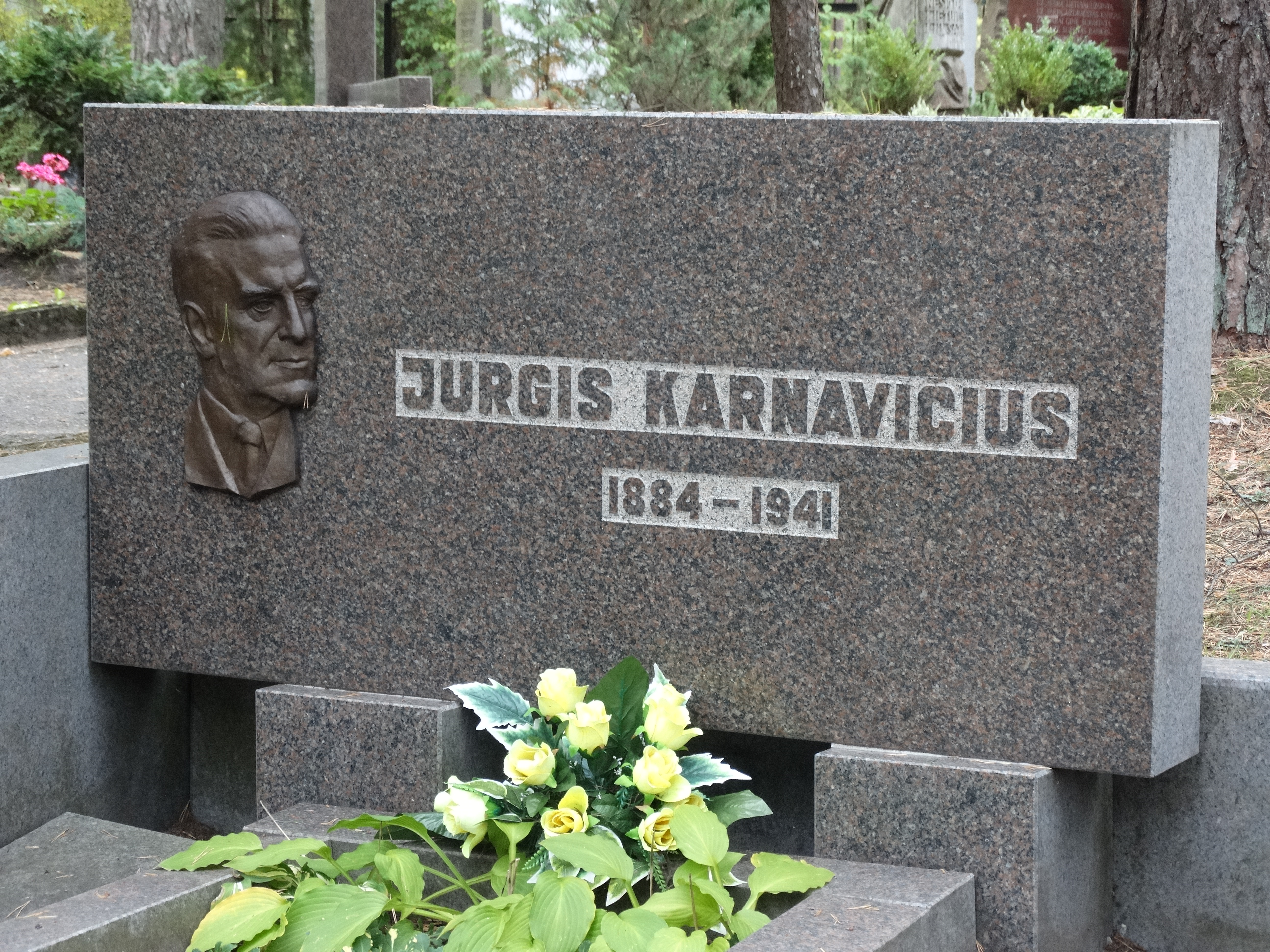 Tomb of Jurgis Karnavičius, Petrašiūnai, Lithuania